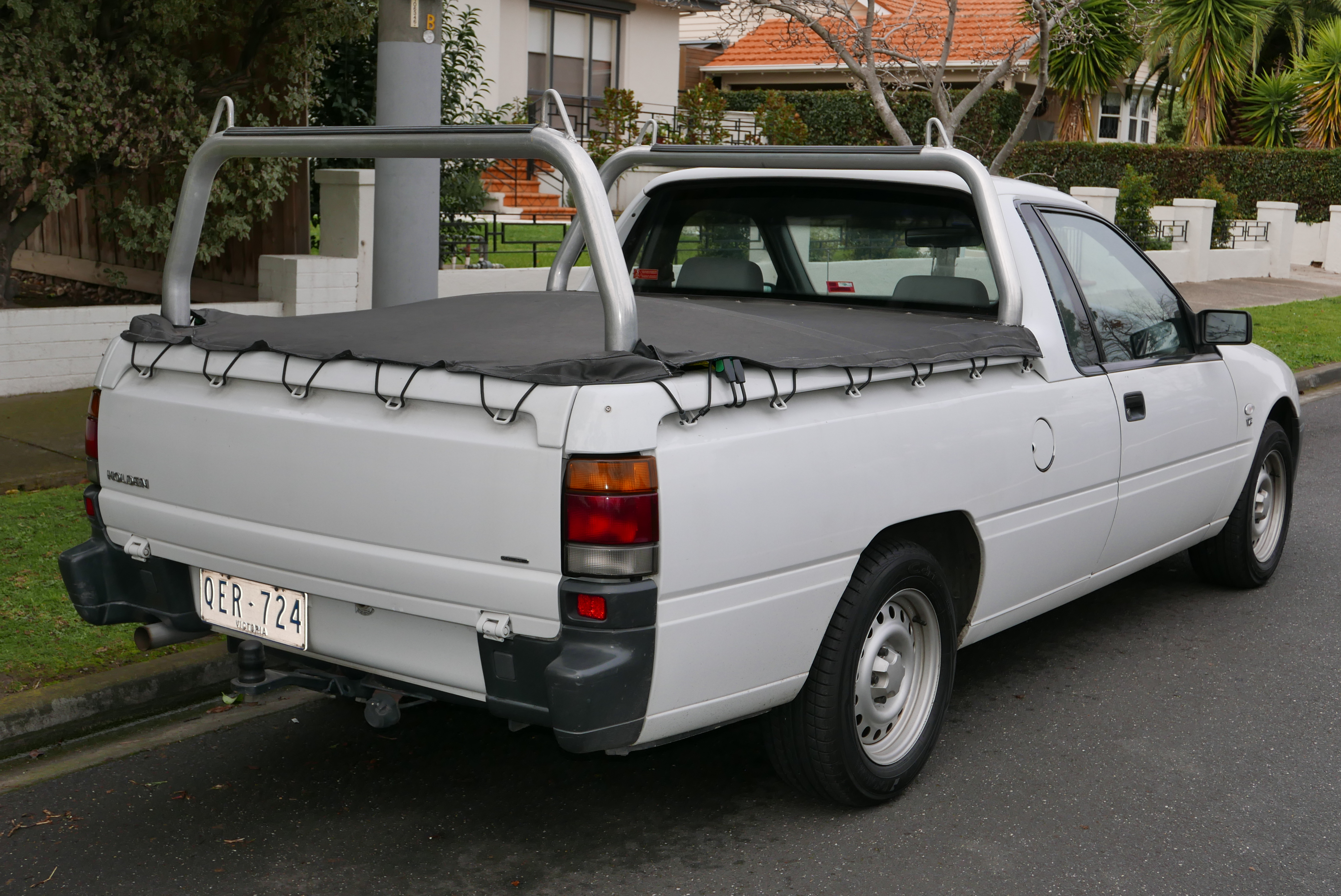 2000 Holden Commodore (VS III) utility. Photographed in Ivanhoe, Victoria, Australia. Vehicle registration enquiry resultsJurisdictionVictoriaRegistrationQER724Chassis code6H8VSK80HYL568893Engine codeVH001005Compliance date2000-03Year of manufacture2000